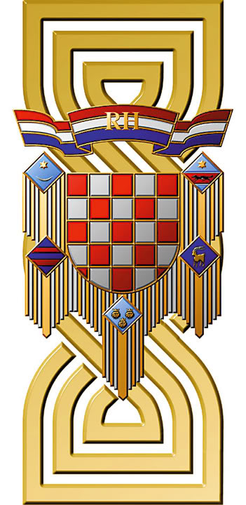 Rank insignia of the Croatian armed forces, here epaulette of the Marshal (Vrhovnik, OF-11).